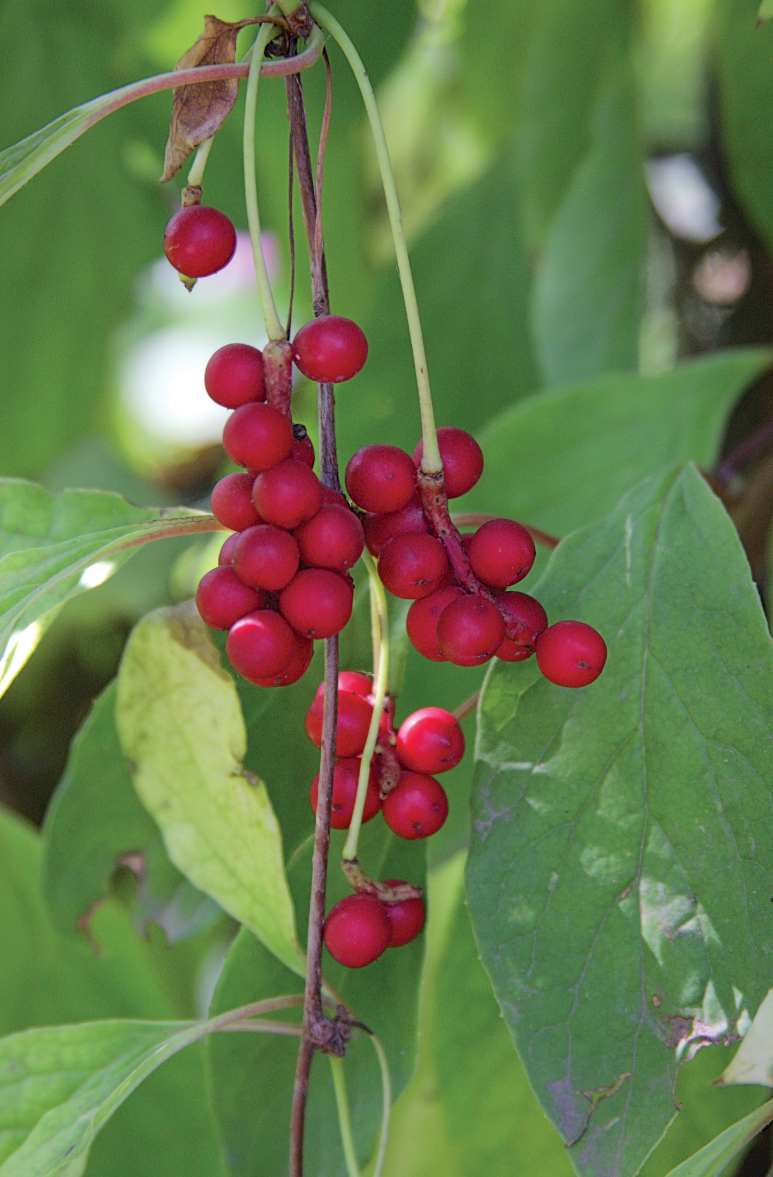 Schisandra chinensis